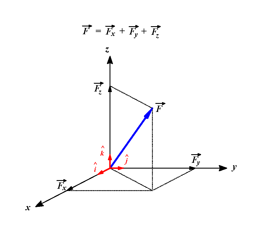 Decomposition of a vector by 3 components